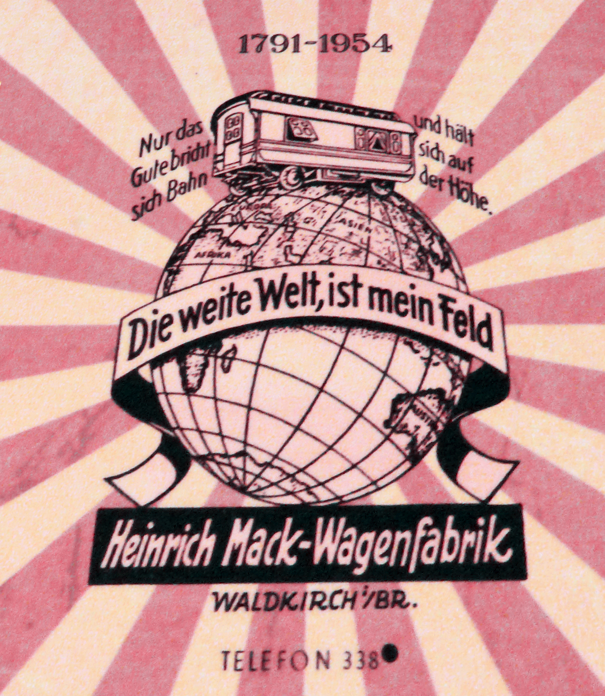 Logo on a tabletop at Europa Park, Rust, Germany